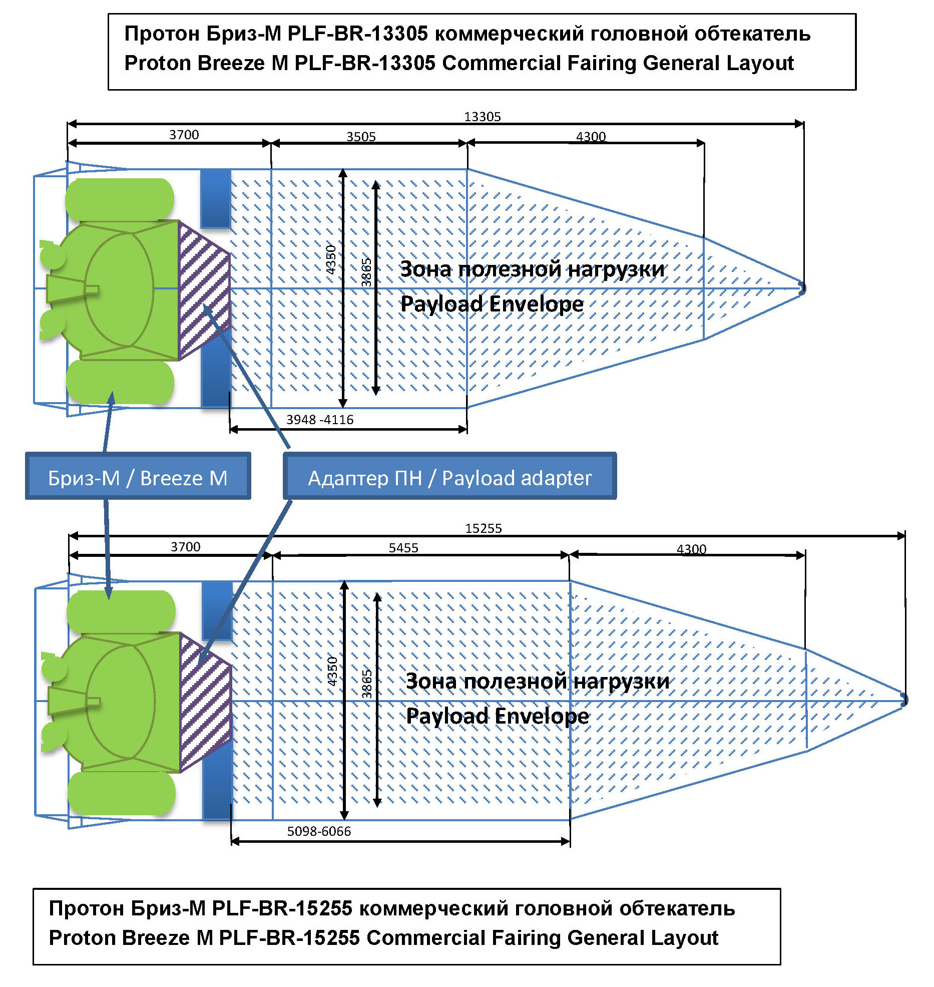 Proton-M fairings used by ILS in commercial launches